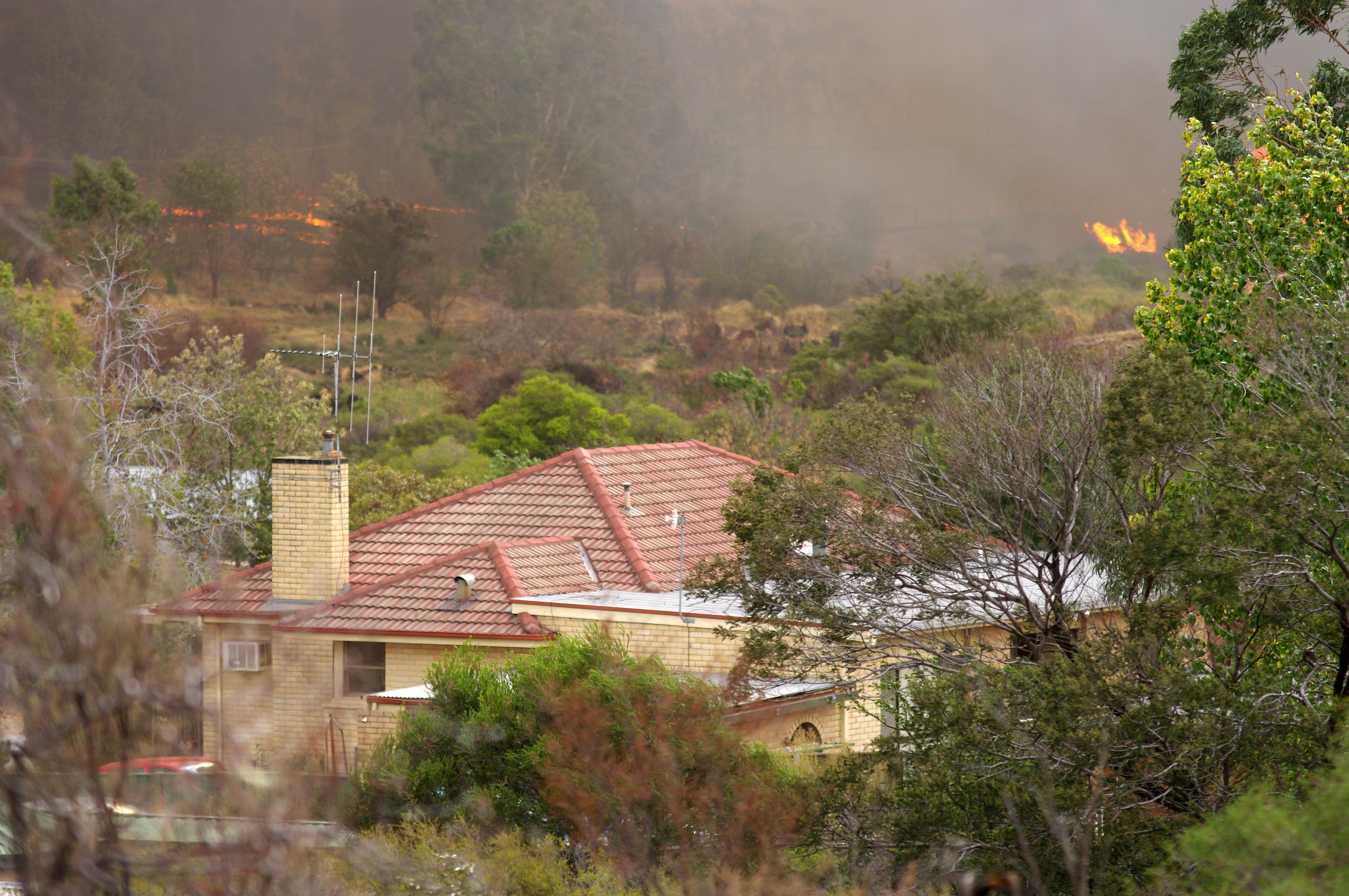 A bushfire burns behind a house in West Bendigo on February 7, 2009.